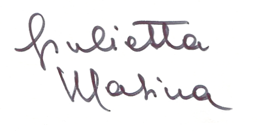 signature of Giulietta Masina